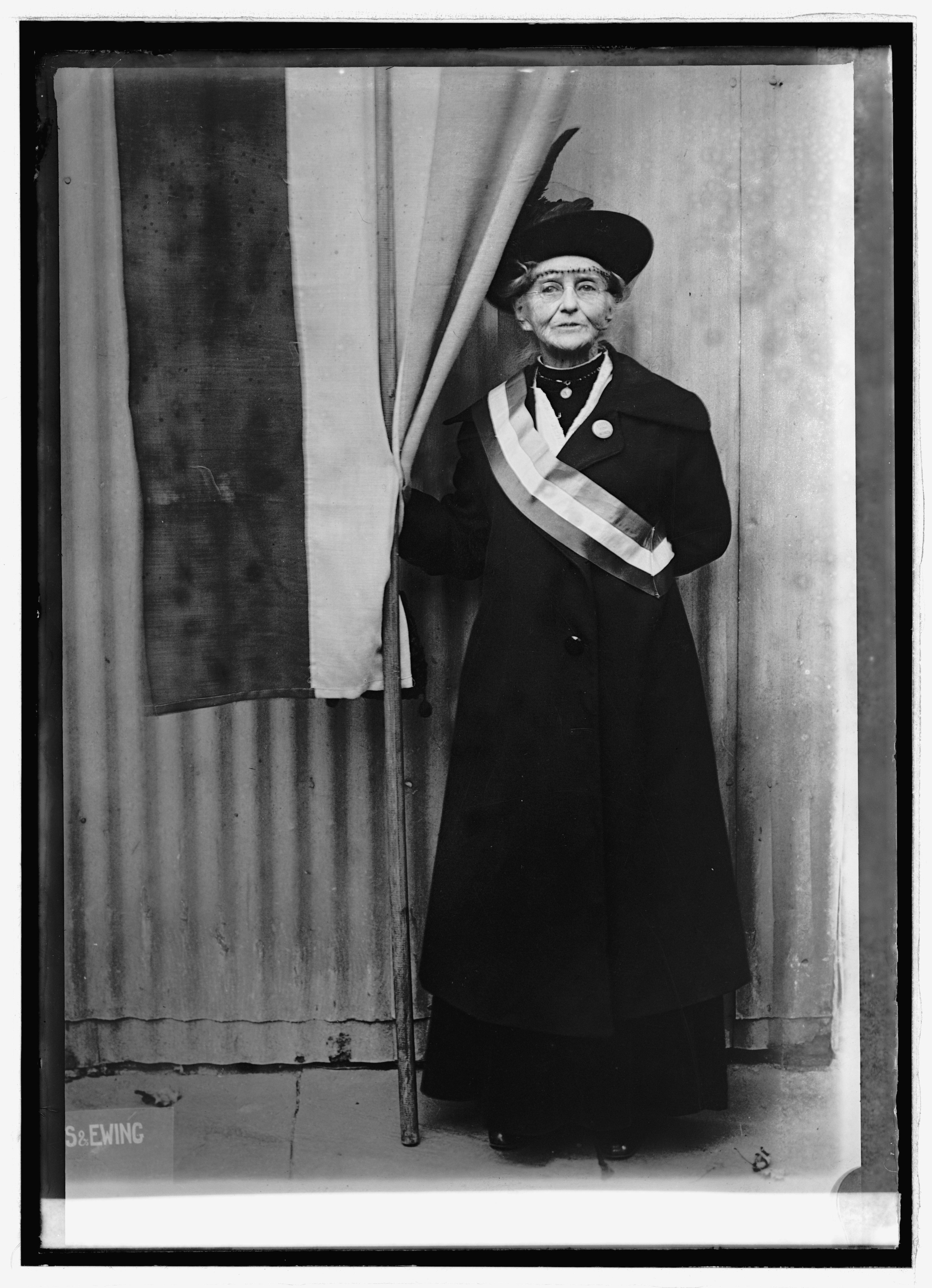 Title: Mrs. Mary Nolan, 2/10/21 Abstract/medium: 1 negative : glass ; 5 x 7 in. or smaller